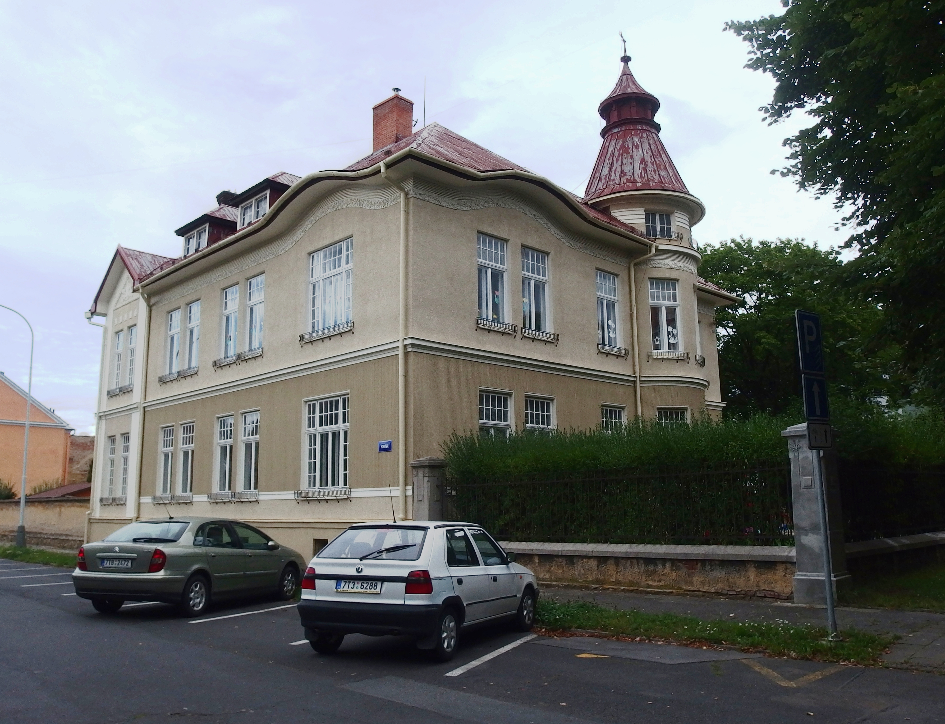 Krnov, Bruntál District, Czech Republic.